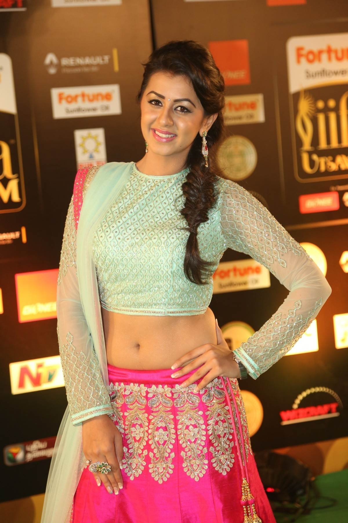 Nikki Galrani at the 1st IIFA Utsavam Awards in 2016.